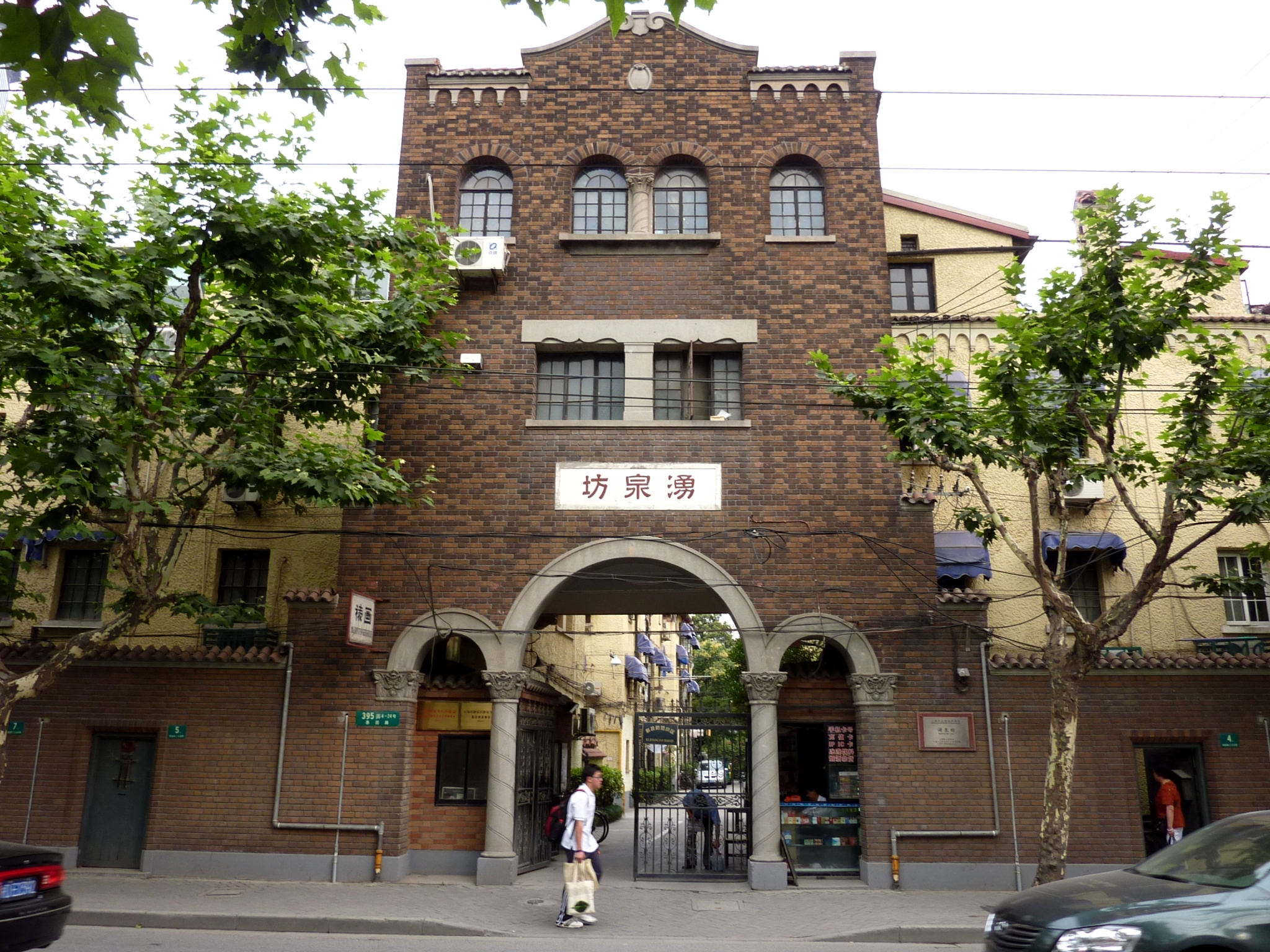 Bubbling Well Lane